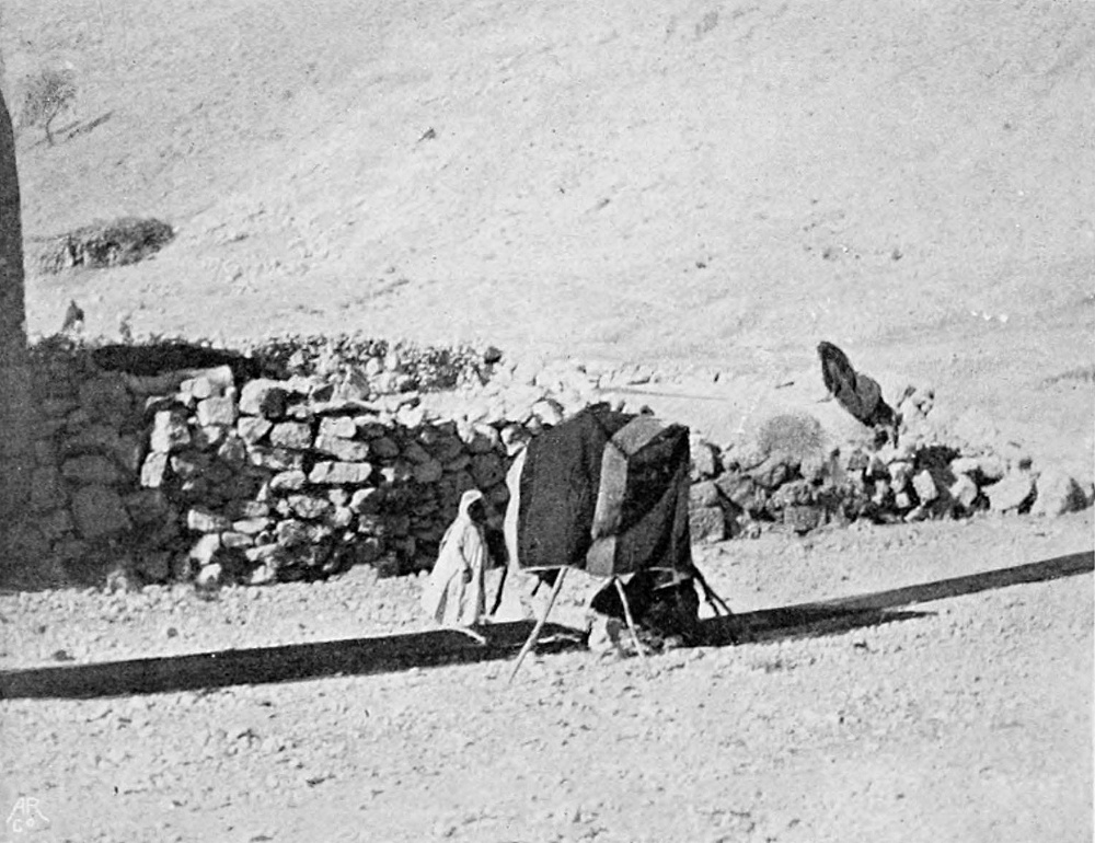 Weaving length of material for bedouin tent. circa 1900.